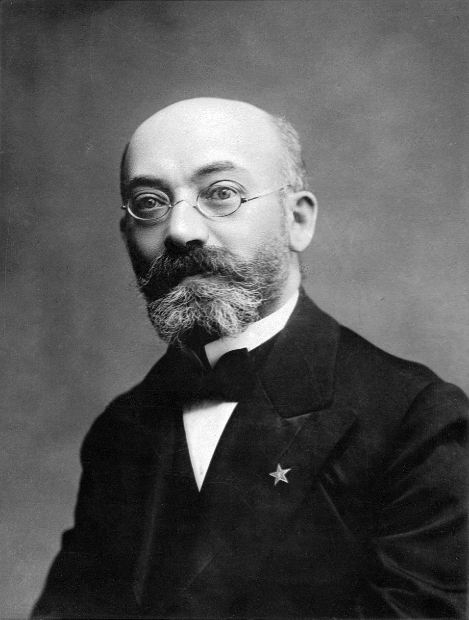 Portrait of L. L. ZamenhofEsperanto: Portreto de L. L. Zamenhof